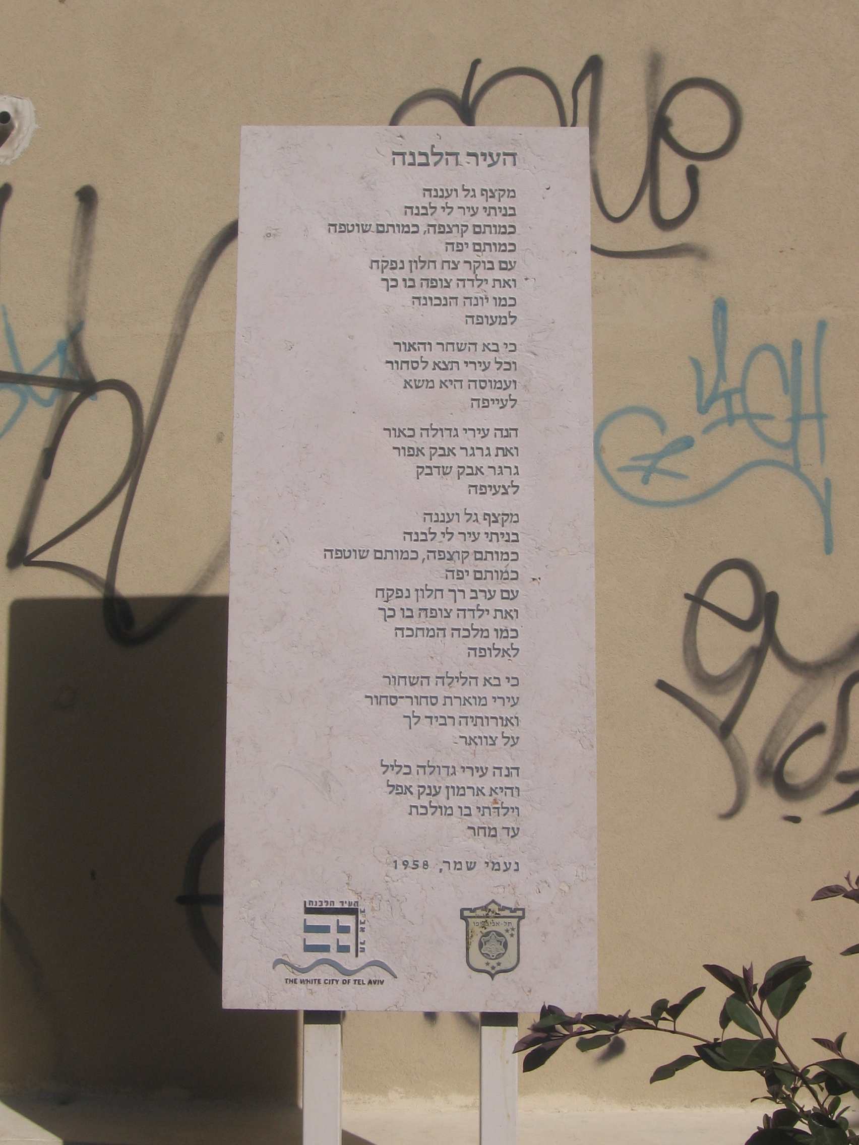 Lyrics of the song "The White City" on Rotschild blvd in Tel Aviv.